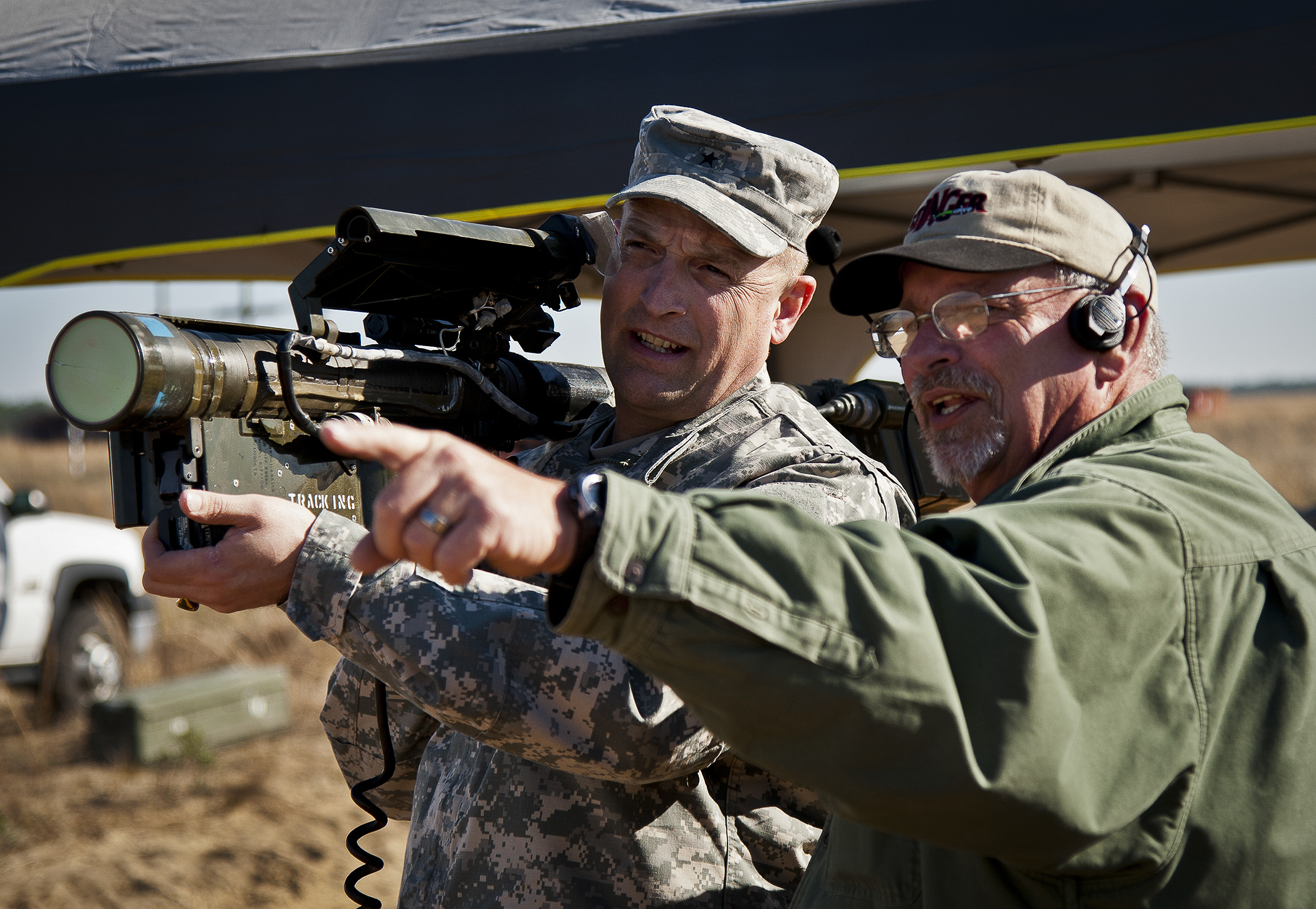 Brig. Gen. Neil Thurgood, the program executive officer missiles and space, receives some pre-fire FIM-92 Stinger training from Jerry Haney, of Raytheon Missile Systems, during testing March 14 at Eglin Air Force Base, Fla. The general fired the first test shot of the day and connected with an aerial target drone. Stinger Based Systems, a division of the Army’s cruise missile defense system unit, test-fired more than 30 Stingers at aerial and fixed targets on the base’s range throughout the week. (U.S. Air Force photo/Samuel King Jr.)